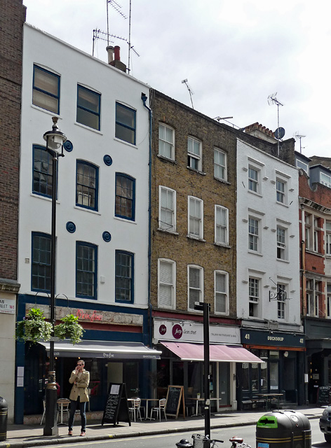 39-41 Dean Street